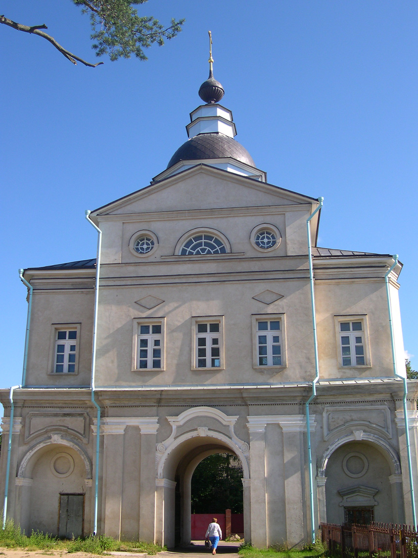 The Holy Gates of the Pokrovsky Monastery in Khotkovo, Moscow Oblast